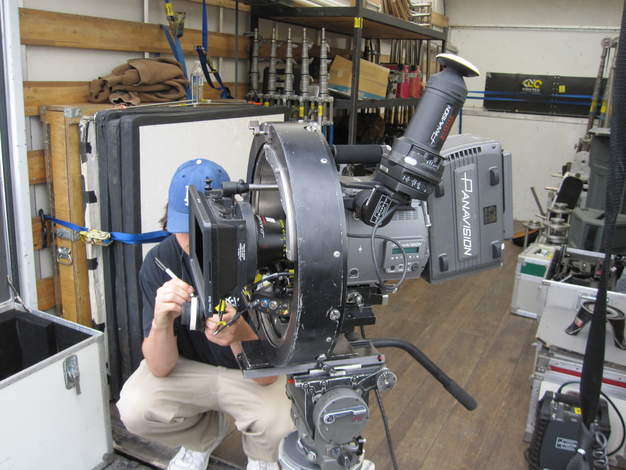 From the movie Love by William Eubank. A Genesis camera by Panavision sits in a dutch mount on the set of "Love".